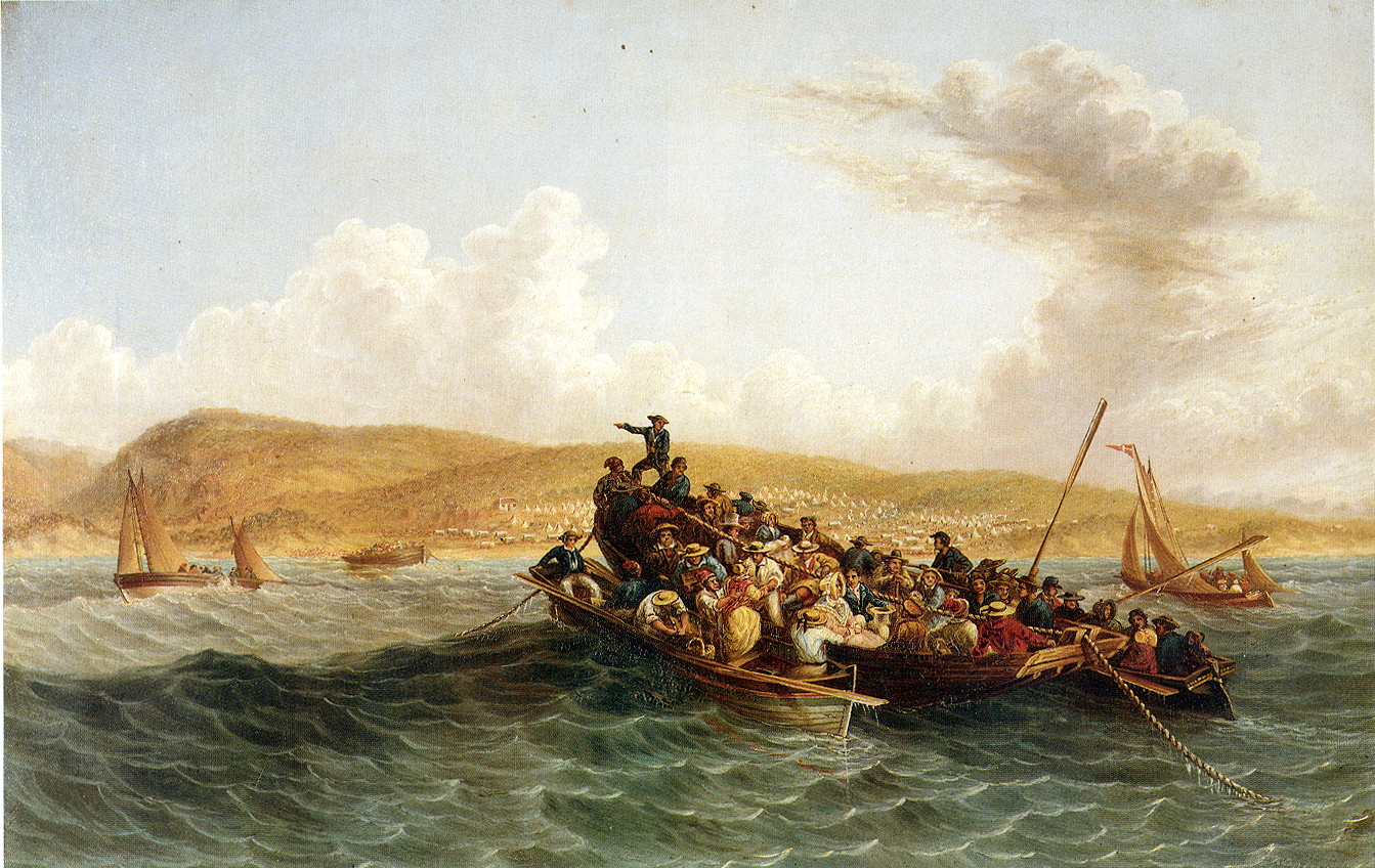 "The British Settlers of 1820 Landing in Algoa Bay", by Thomas Baines, 1853